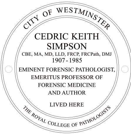 Westminster City Council Green Plaque in honour of Cedric Keith Simpson CBE Eminent English Forensic Pathologist by Cllr Robert Davis, Deputy Leader of Westminster Council in the presence of The Lord Mayor of Westminster Angela Harvey Located 1 Weymouth Street, London W1